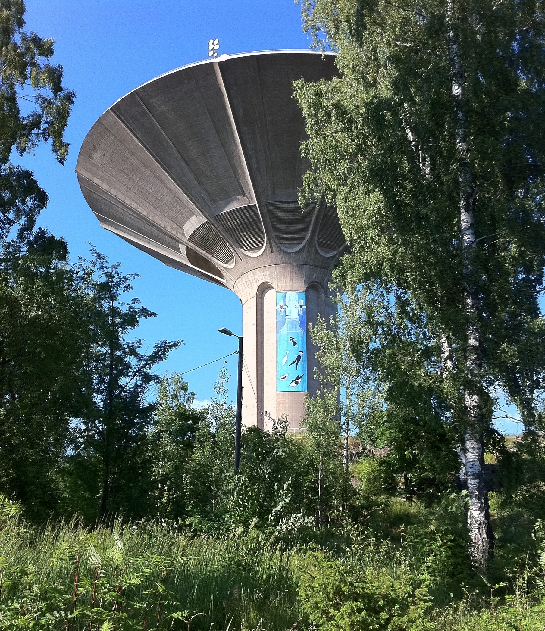 Roihuvuori water tower in Helsinki, Finland. Architect Simo Lumme.